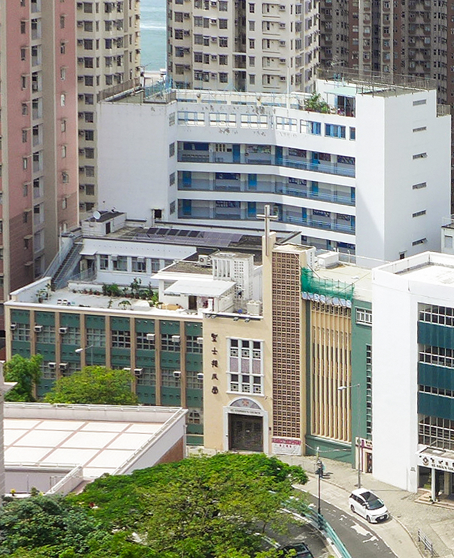 St. Stephen's Church Primary School